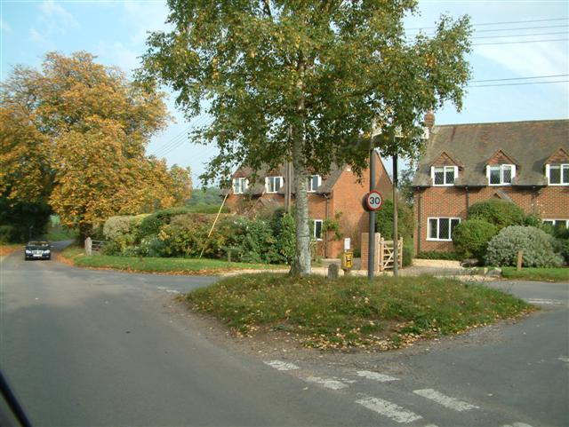 The Triangle.